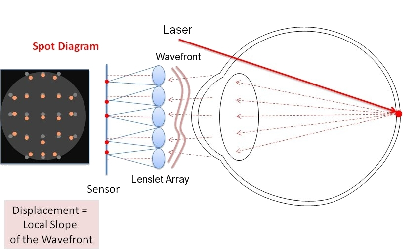 Shack-Hartmann Sensor ray diagram